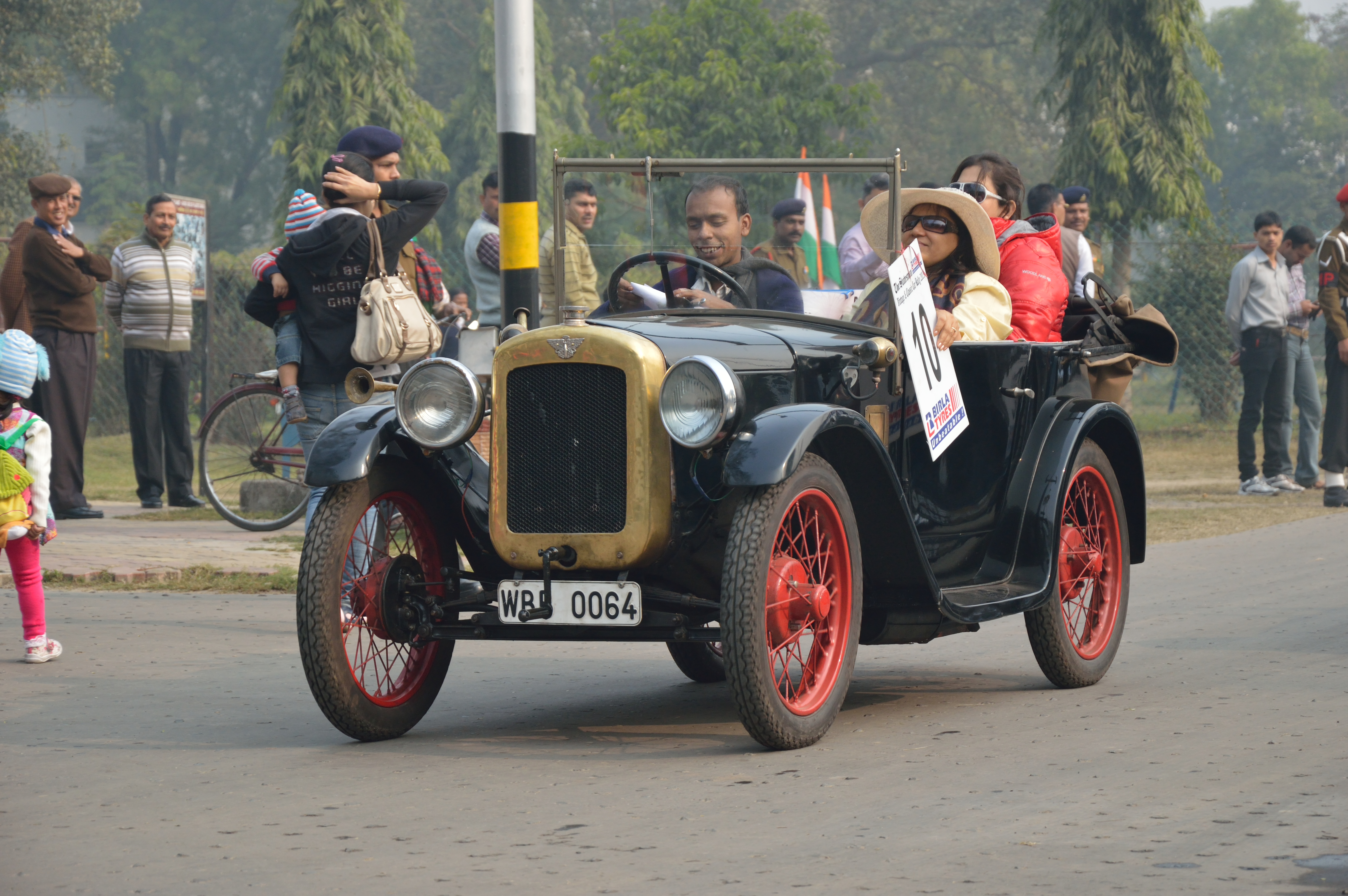 This Austin car was exhibited and ran during ‘The Statesman Vintage & Classic Car Rally 2013’ from the Eastern Command Sports Stadium of Fort William, Kolkata to the same via: Rabindra Sadan, Esplanade, Central avenue, Bhupen Bose avenue, Shaymbazaar five points crossing, APC Roy road, AGC Bose road Park Circus seven points, Gariahat flyover, Gol park, Rabindra Sarover, SP Mukherjee road, Hazra Road, Alipore road and Strand road, the route covers 31.32 km. The rally was held at chilled morning on 13 January 2013 at the ECS Stadium, where 170 entrants were participated with cars and bikes manufactured from 1906 to 1978. This one day festival takes place on the second Sunday of every January in Kolkata since 1968 with full of period costume and cultural period pieces.